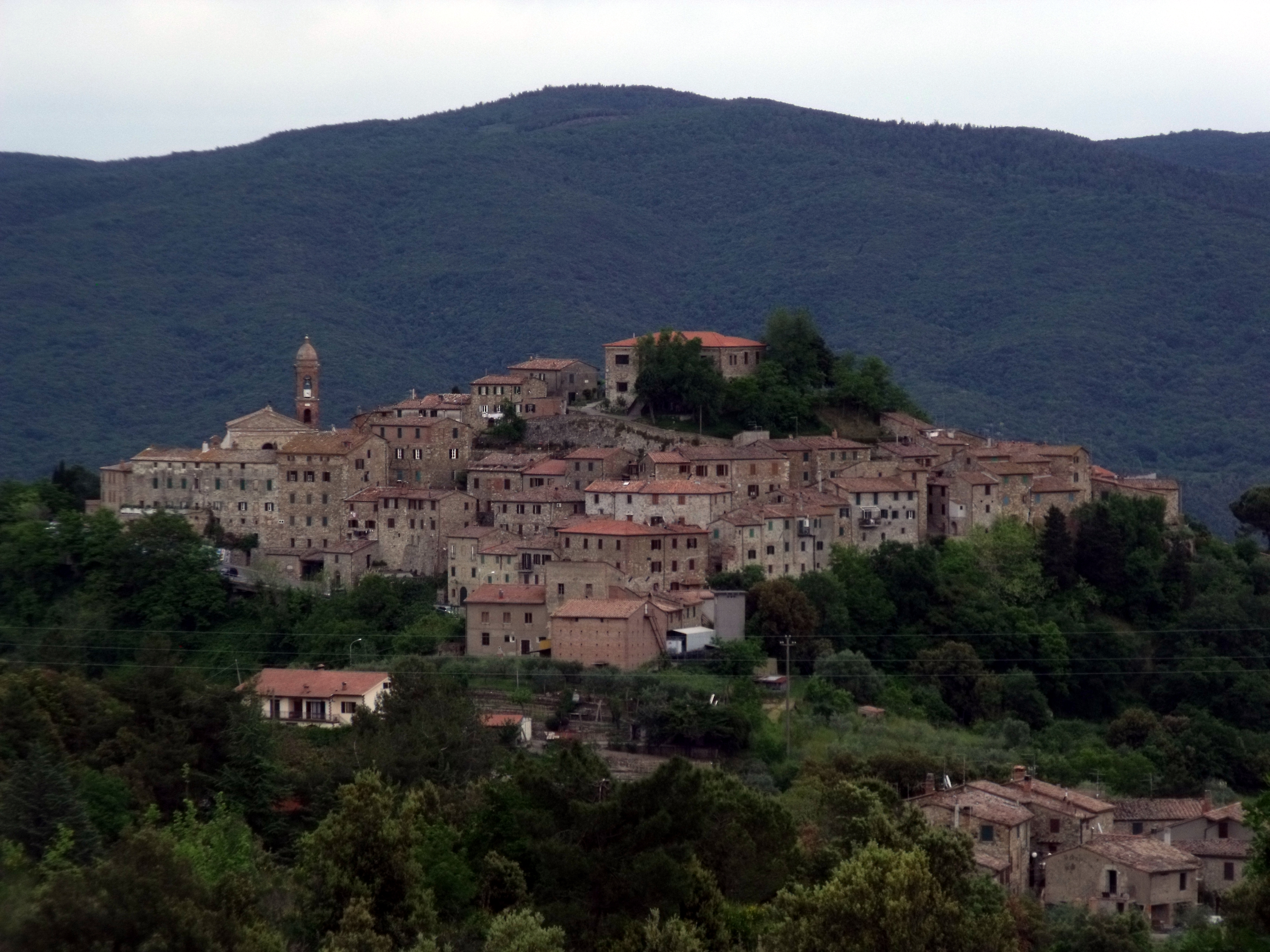 Panorama of Pari, hamlet of Civitella Paganico, Province of Grosseto, Tuscany, Italy